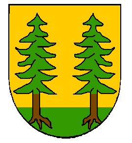 coat of arms municipality of Santa Maria Val Müstair (Switzerland) created by user:Idéfix, march 19, 2006